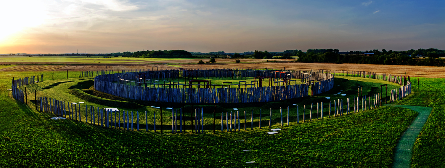 View from the observation tower over the ring sanctum Pömmelte